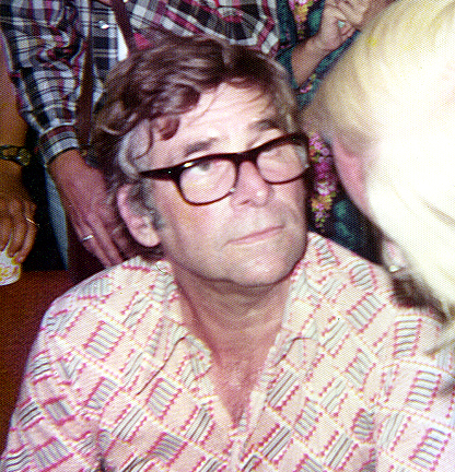 Gene Roddenberry listening to fans after his lecture at the Student Union of the University of Texas at Austin, Austin, Texas, United States.